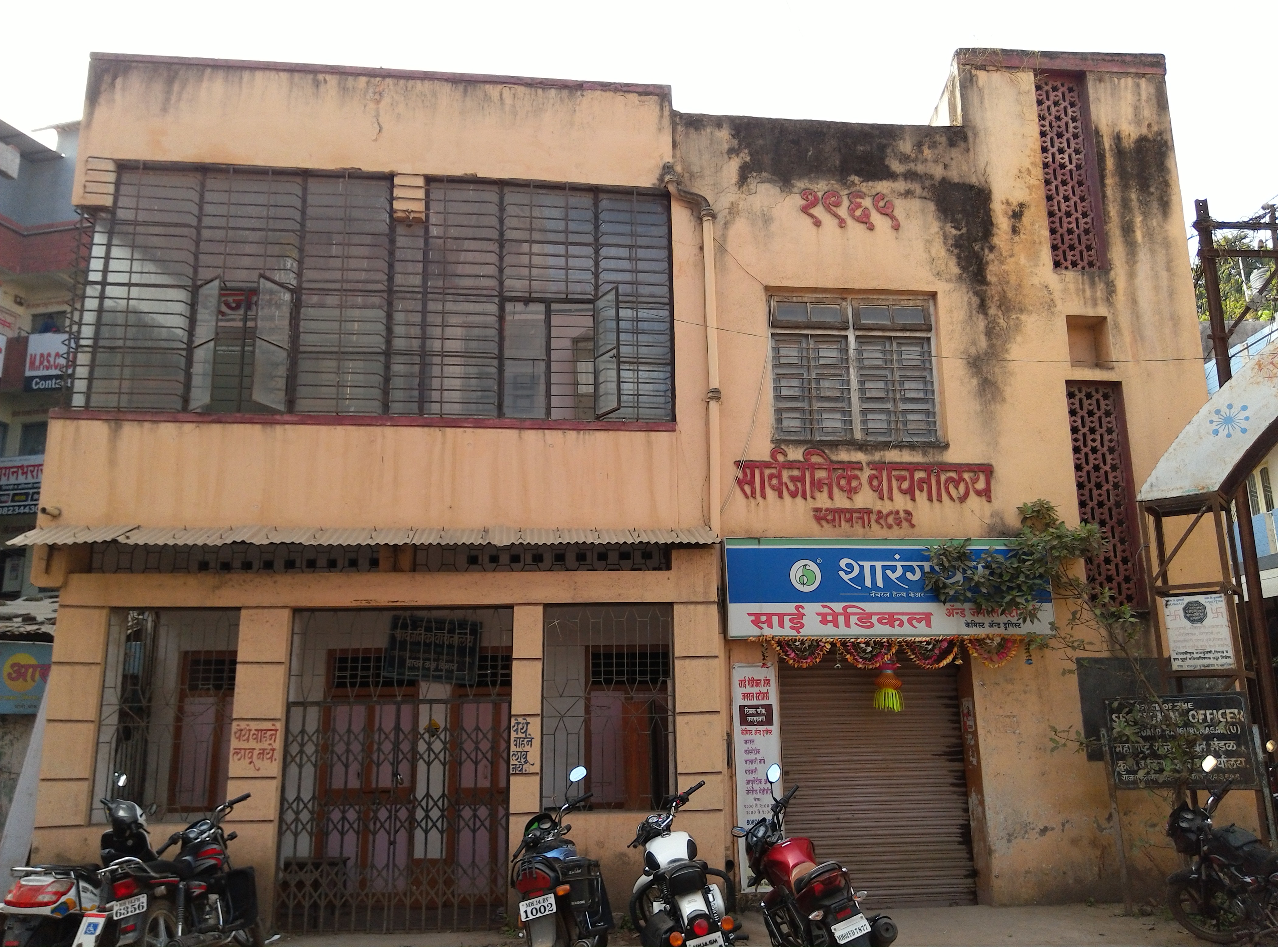 Pubilc Library, Rajgurunagar, District Pune, Maharashtra (India) is 160 year old library